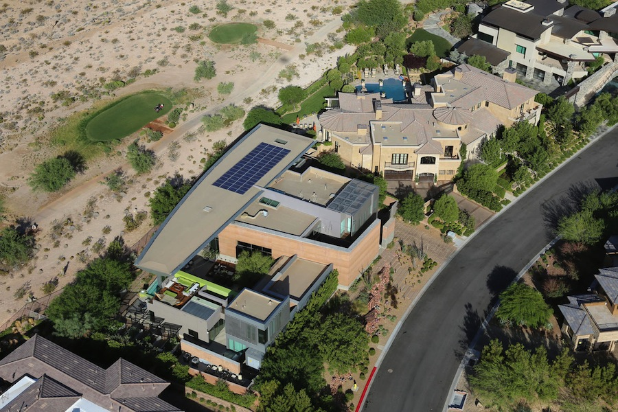 Overview of Sable Ridge Court inside Promontory at The Ridges, using a DJI Phantom 4 Camera Drone.